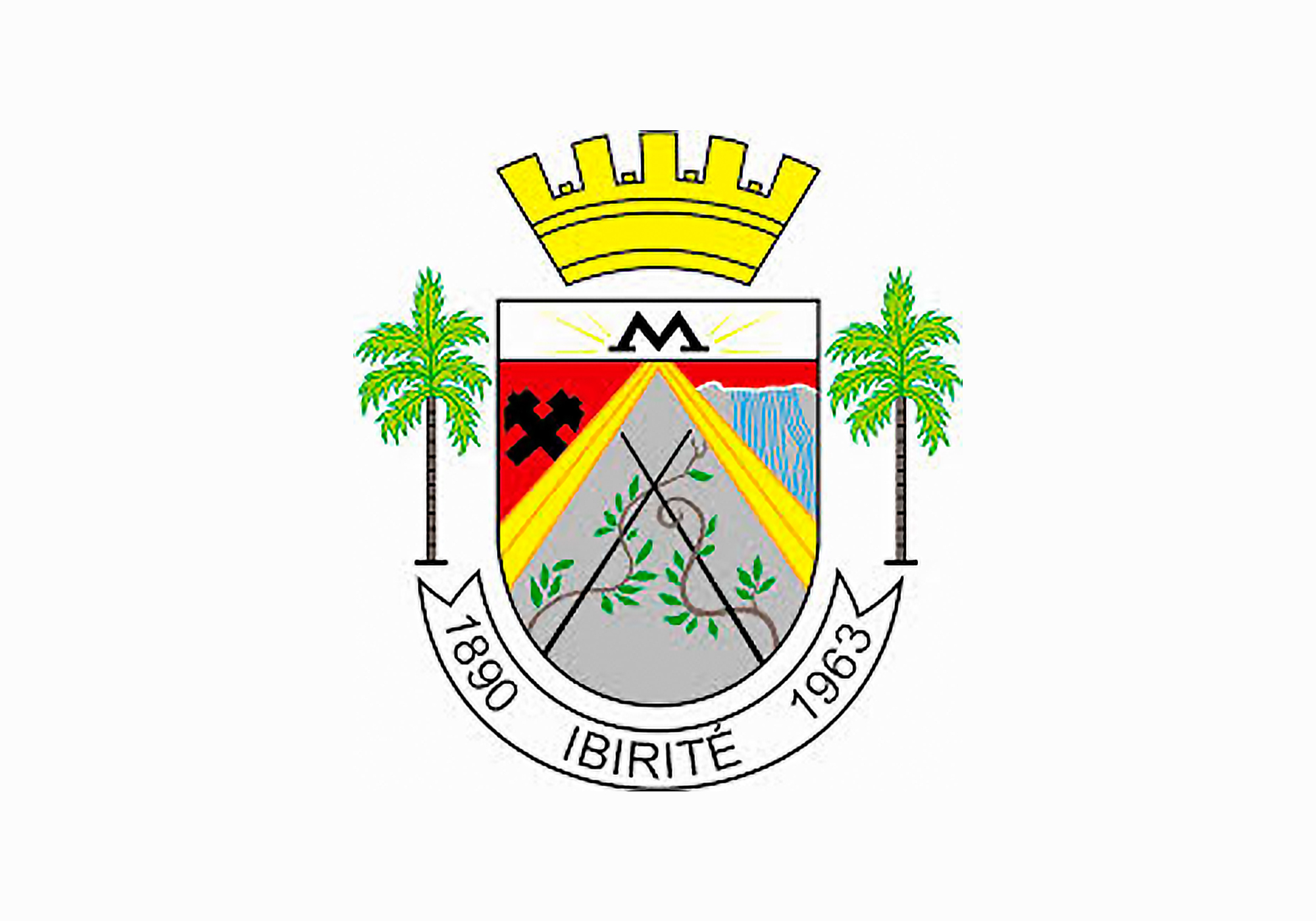 Bandeira de Ibirité-Minas Gerais